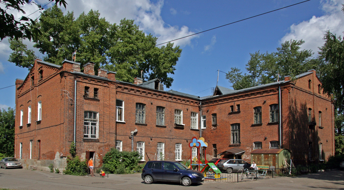 д. 12 по улице Гоголя в Томске